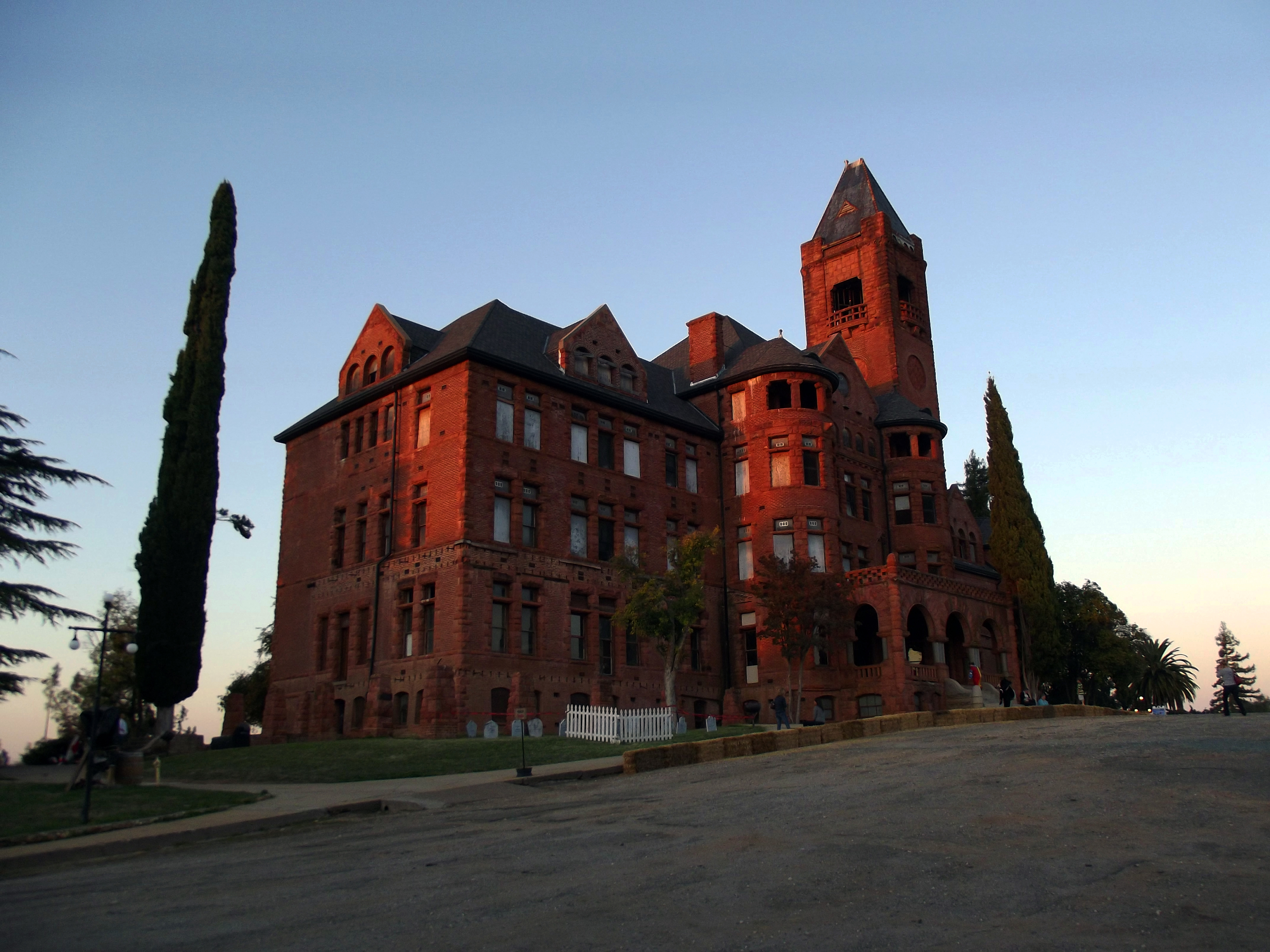 Preston School of industry, also known as "The Castle" in Ione California. Spetember 30, 2011.